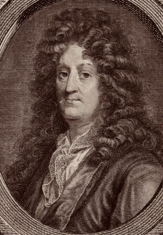 Enlarged crop of an engraving showing Jean Racine(1639-1699)